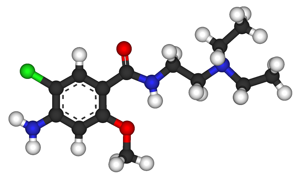 Ball-and-stick model of metoclopramide. Created using Accelrys DS Visualizer Pro 1.6 and GIMP.